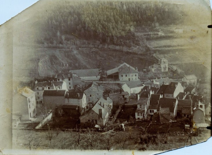 The area of Bregille in 1880's, located in Besançon (Doubs, France)